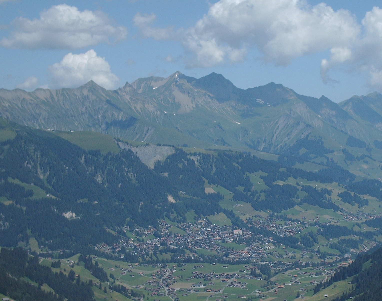 Schutzwald an den Steilhängen über Adelboden Adelboden protected by forest from avalanches Photo taken by Irmgard, July 2006 from Engstligenalp